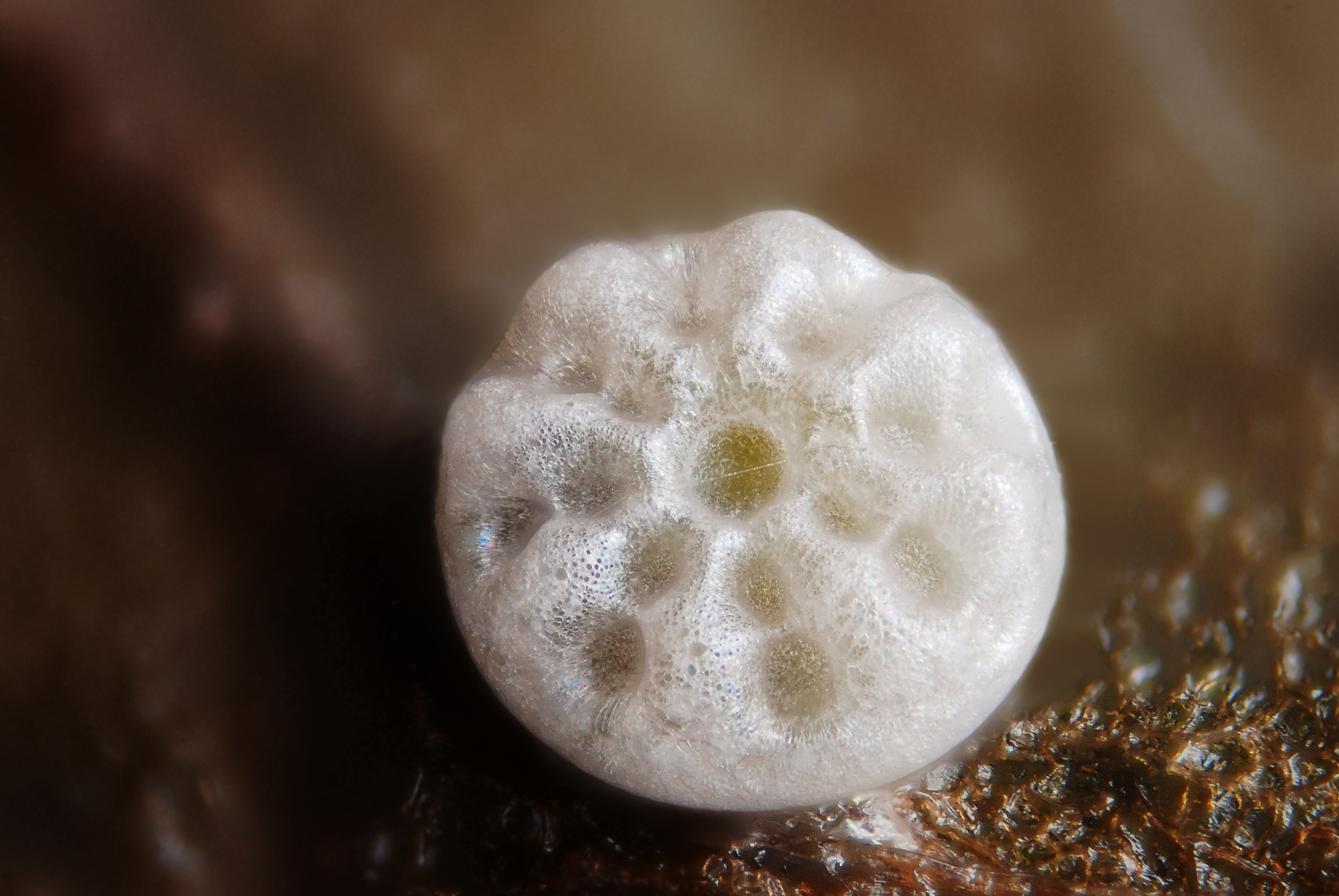 Egg of the butterfly Lycaena dispar (Large Copper) Technical settings : - focus stack of 33 images - microscope objective (Nikon achromatic 10x 160/0.25) on bellow